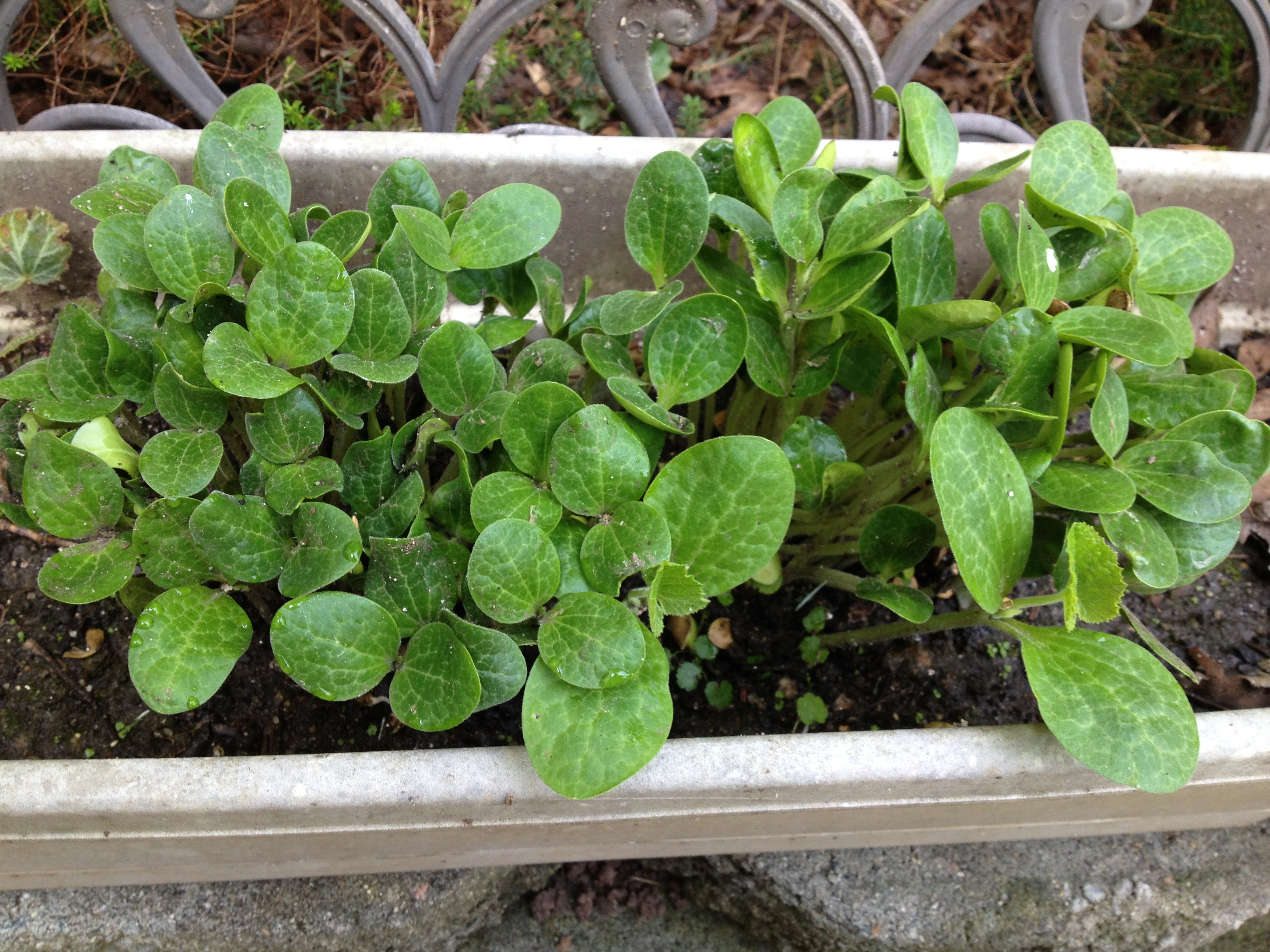 Acorn Squash spouts